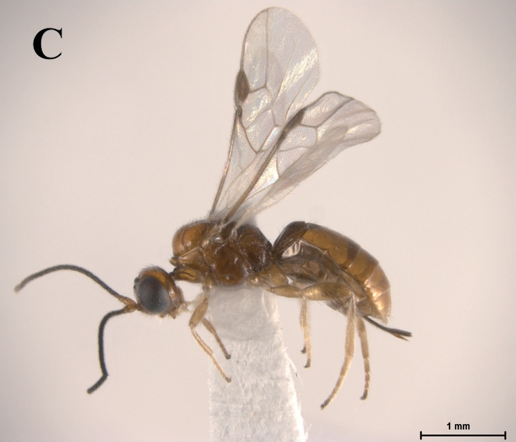 Braconid wasp Lissopsius flavus